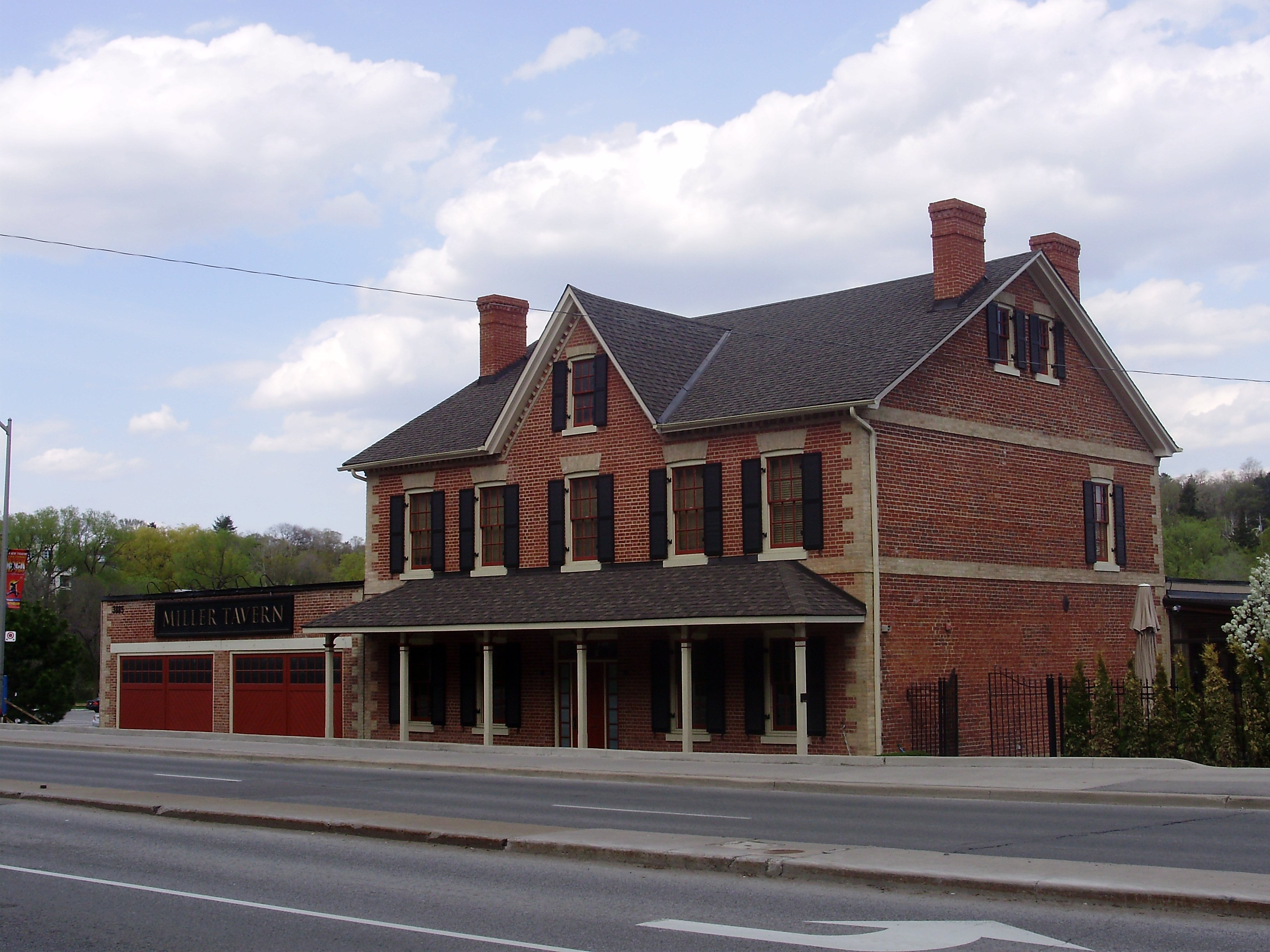 The Miller Tavern, a historic 19th century inn and functioning restaurant, on Yonge Street south of York Mills Road in North York, Ontario.